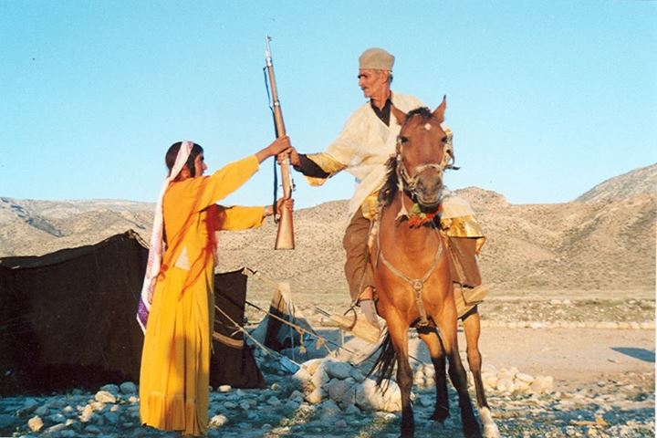 Qashqai Hunter and his wife.